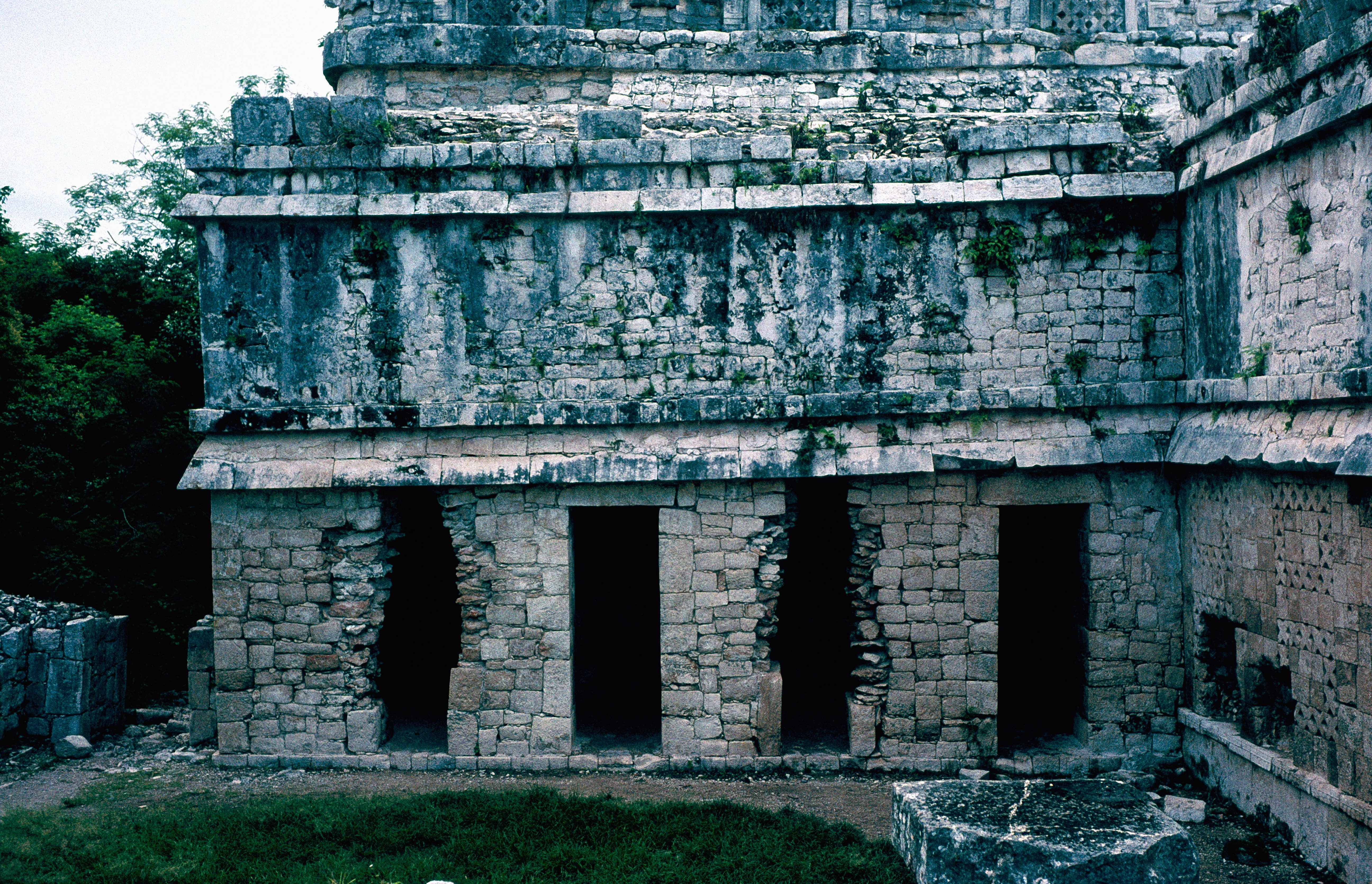 Chichen Itza,Yucatan, Mexico: Monjas annex, south adjoining building